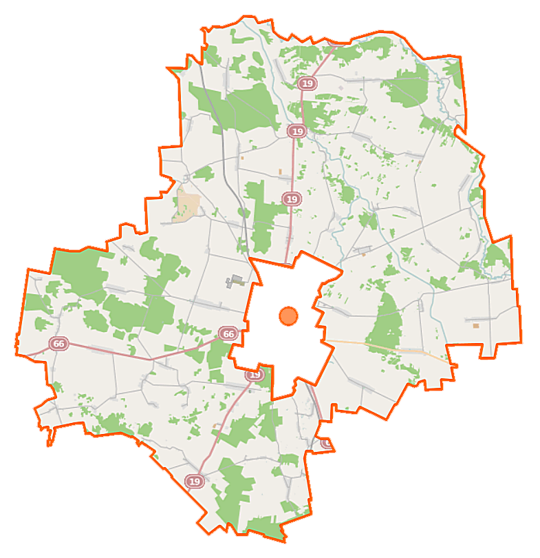 Map of Gmina Bielsk Podlaski, Poland This map of Bielsk Podlaski (gmina wiejska) was created from OpenStreetMap project data, collected by the community. This map may be incomplete, and may contain errors. Don't rely solely on it for navigation.